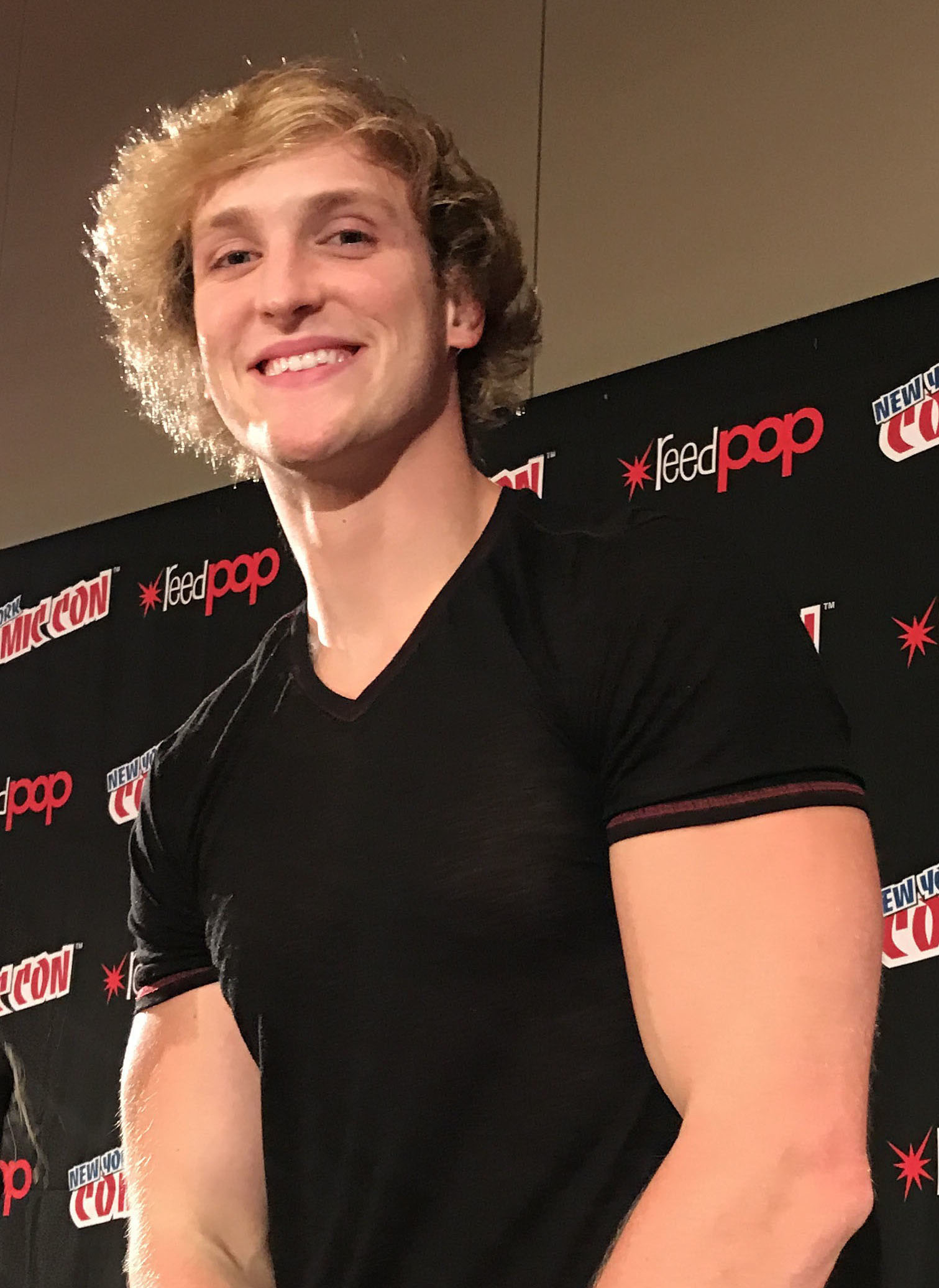 Actor Logan Paul at a panel discussion devoted to the 2016 film The Thinning at the Jacob K. Javits Convention Center in Manhattan, on Saturday October 8, 2016, Day 3 of the 2016 New York Comic Con.